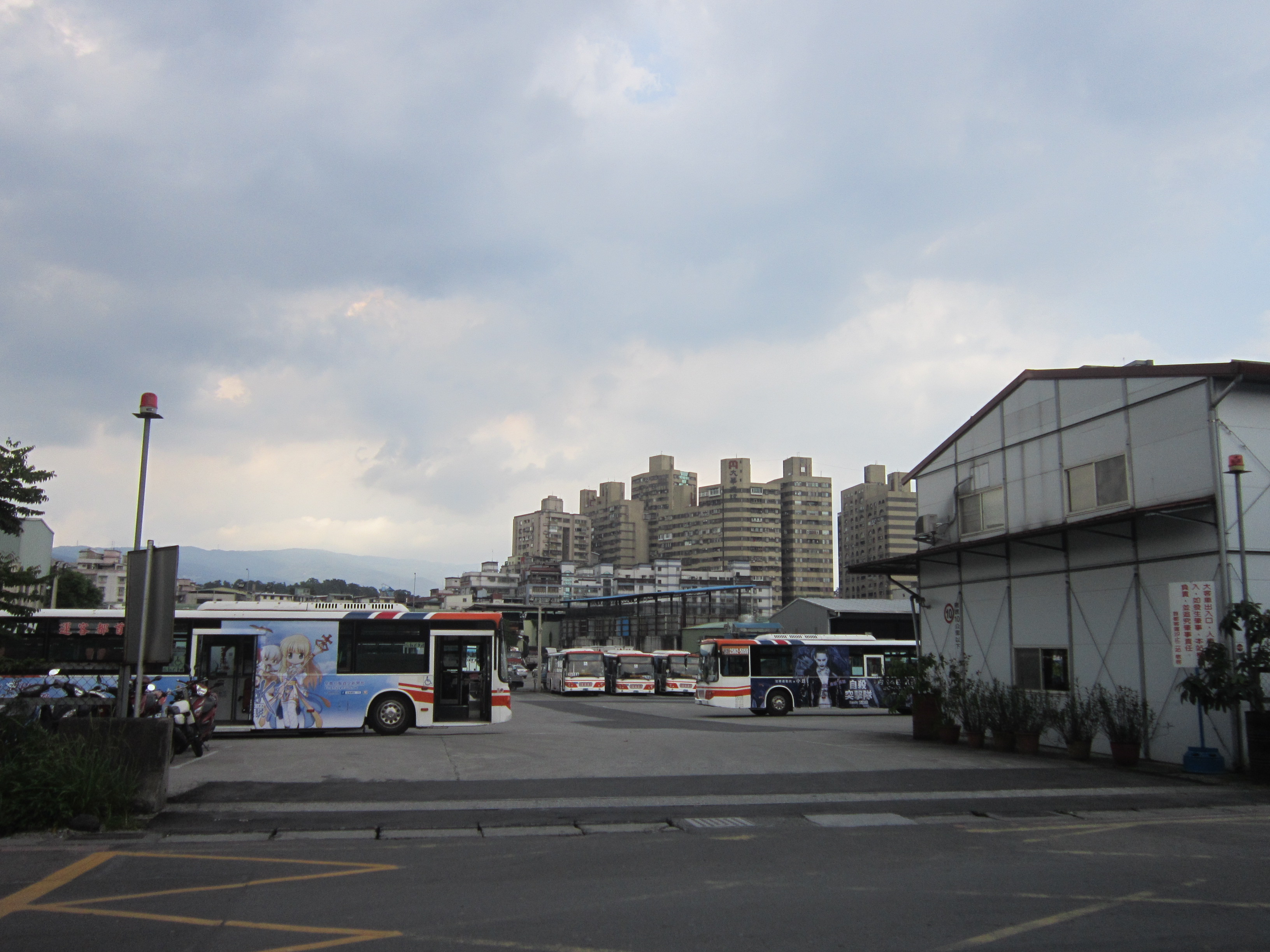 Xizhi 2nd Station, Capital Bus.